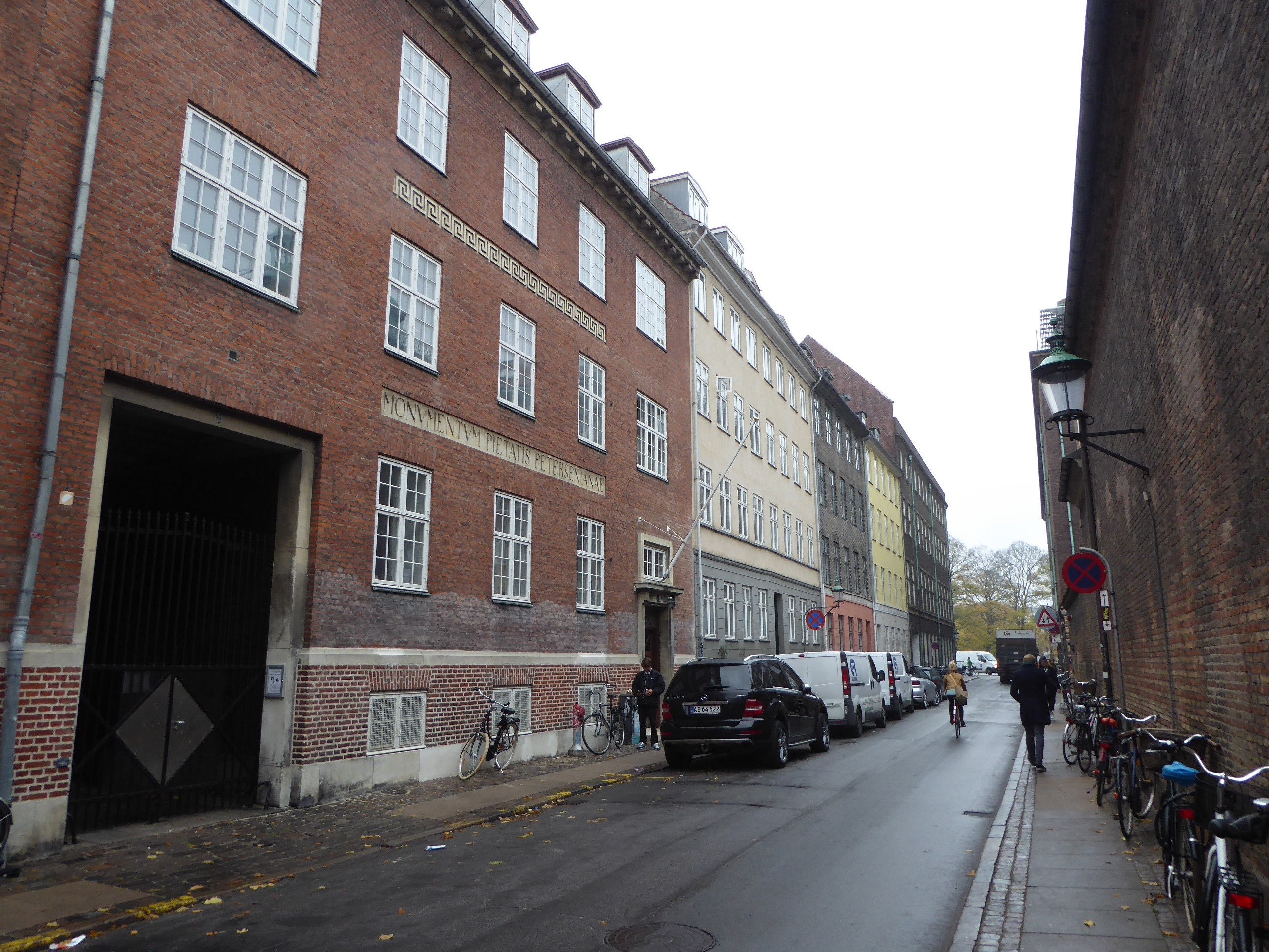 The street Larslejsstræde in Indre By in Copenhagen.